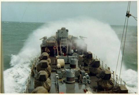 The U.S. Navy inshore fire support ship USS White River (LSMR-536) in rough seas, in the 1960s.